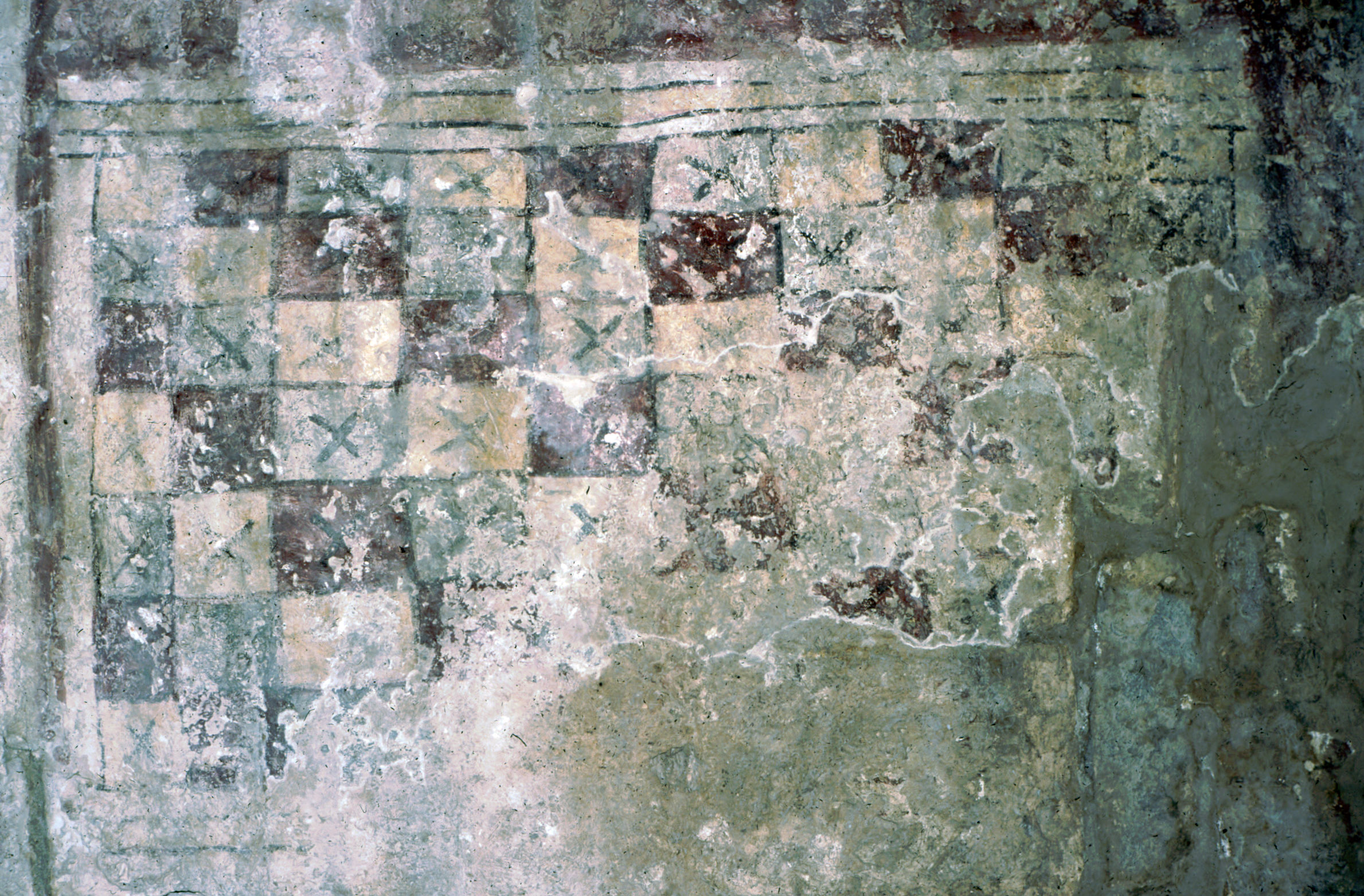 Xelha, Quintana Roo, Mexico: mural